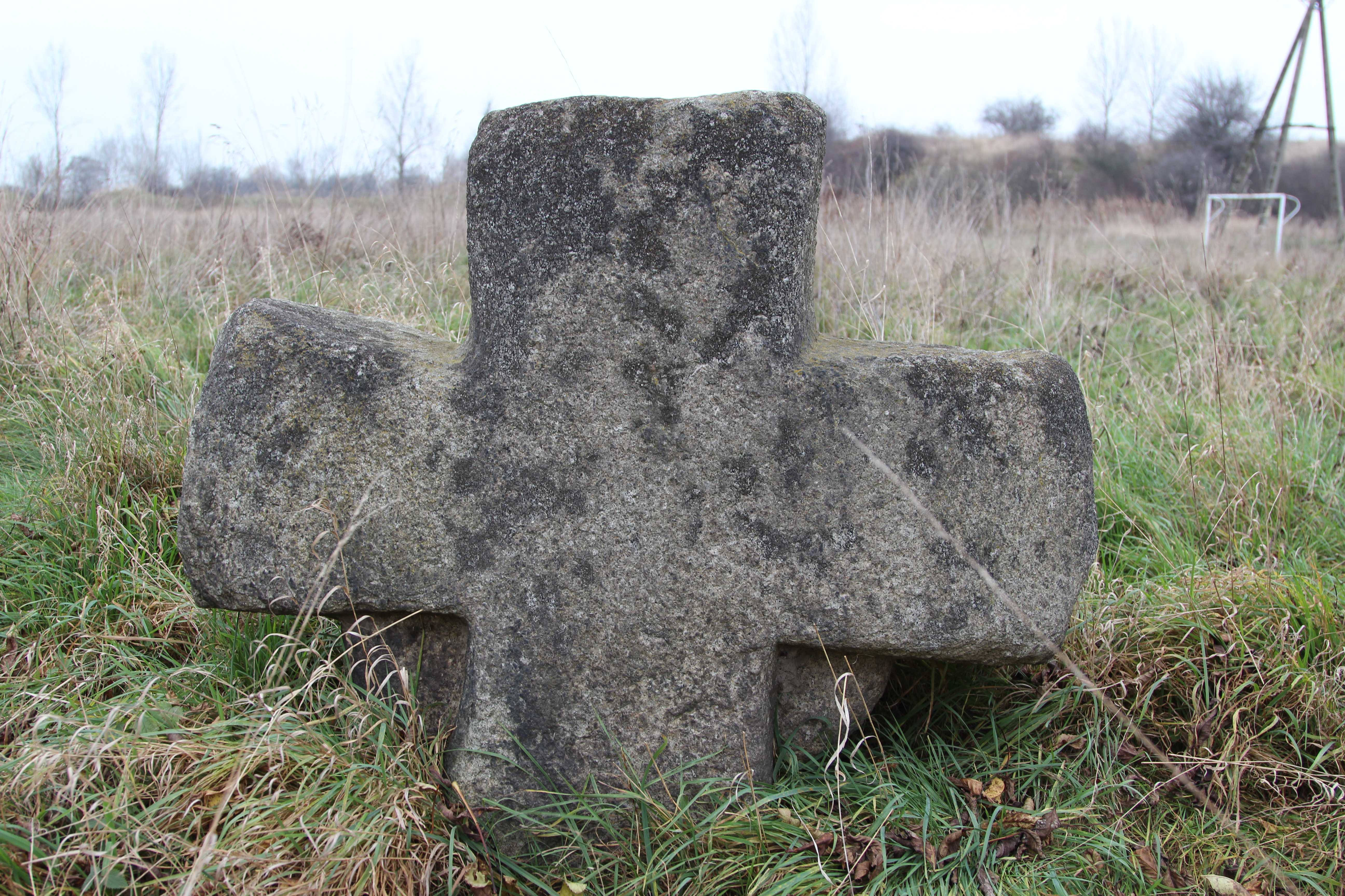 Stone cross in Rusko